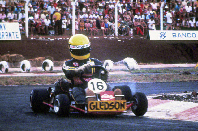 Ayrton Senna driving a Kart during his childhood